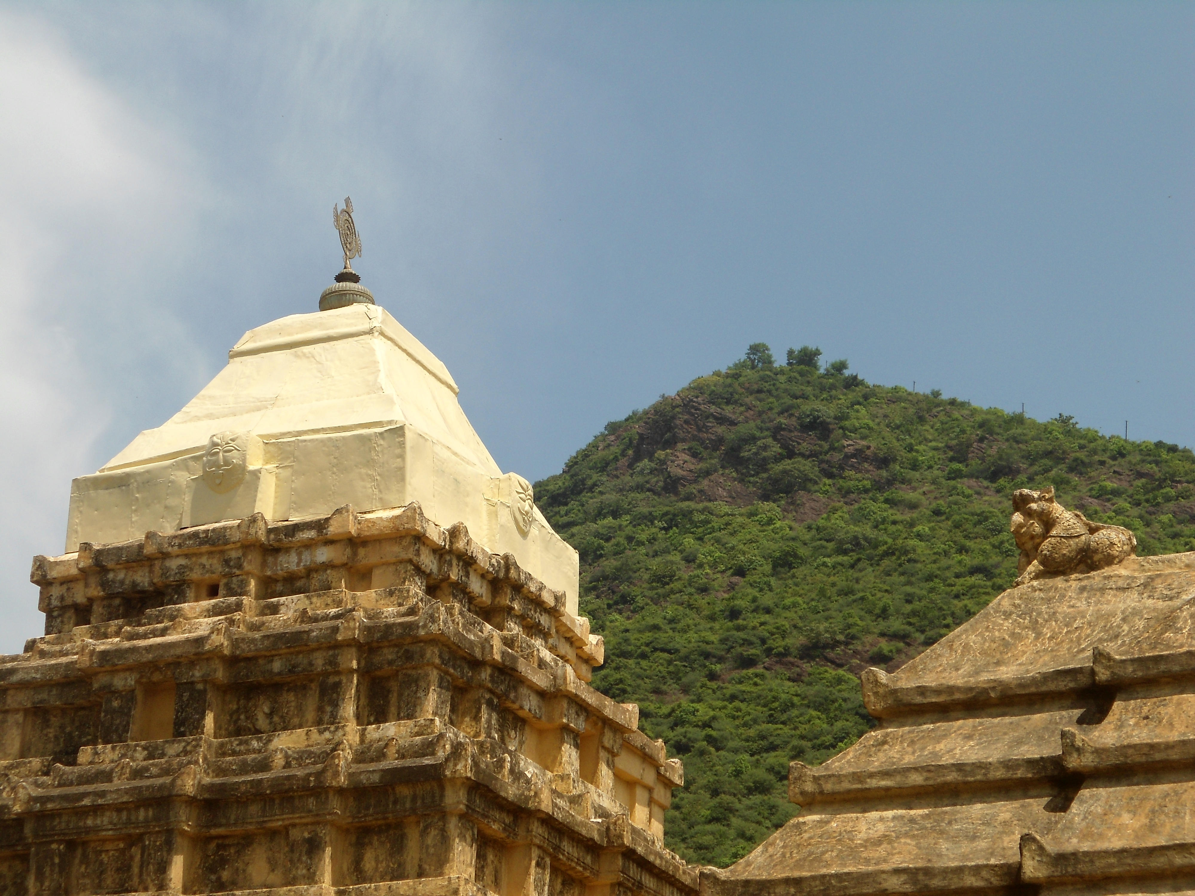 Lord Vishnu Temple (Lower Padmanabham Temple) at Padmanabham, Visakhapatnam district